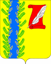 Coat of arms of Pushkinskoye, Krasnodar Krai, Russia.